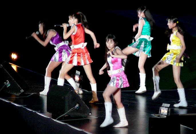 The Japanese idol group Momoiro Clover Z performs at the 2011 Jingu Gaien Fireworks Festival. Chichibunomiya Rugby Stadium, Tokyo, August 6, 2011.This image has been losslessly cropped from the original that was posted to Flickr. The photo was taken using a Panasonic DMC-FZ50.